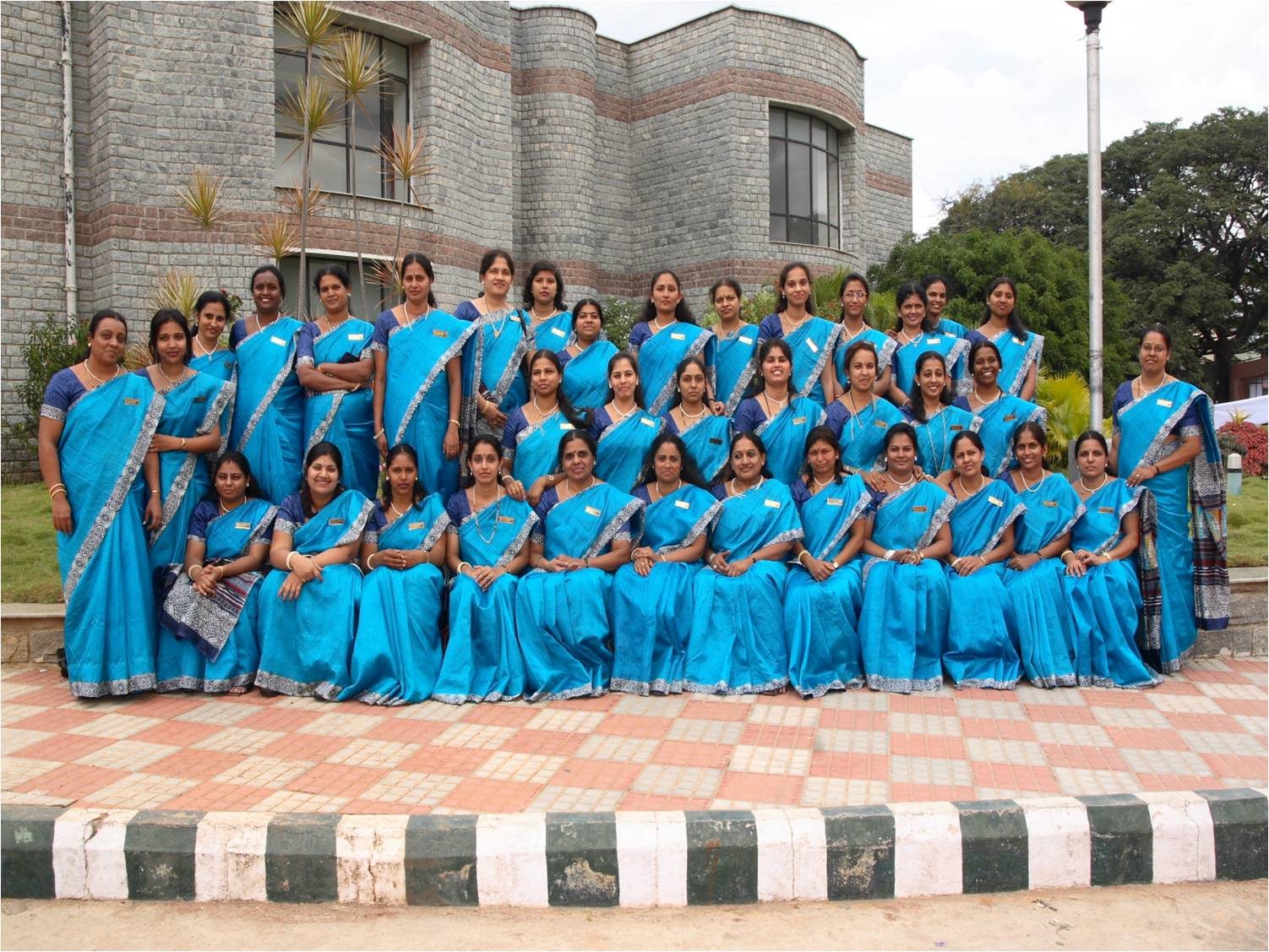 The Photograph of the Teaching Staff of Little Flower Public School 2007-08